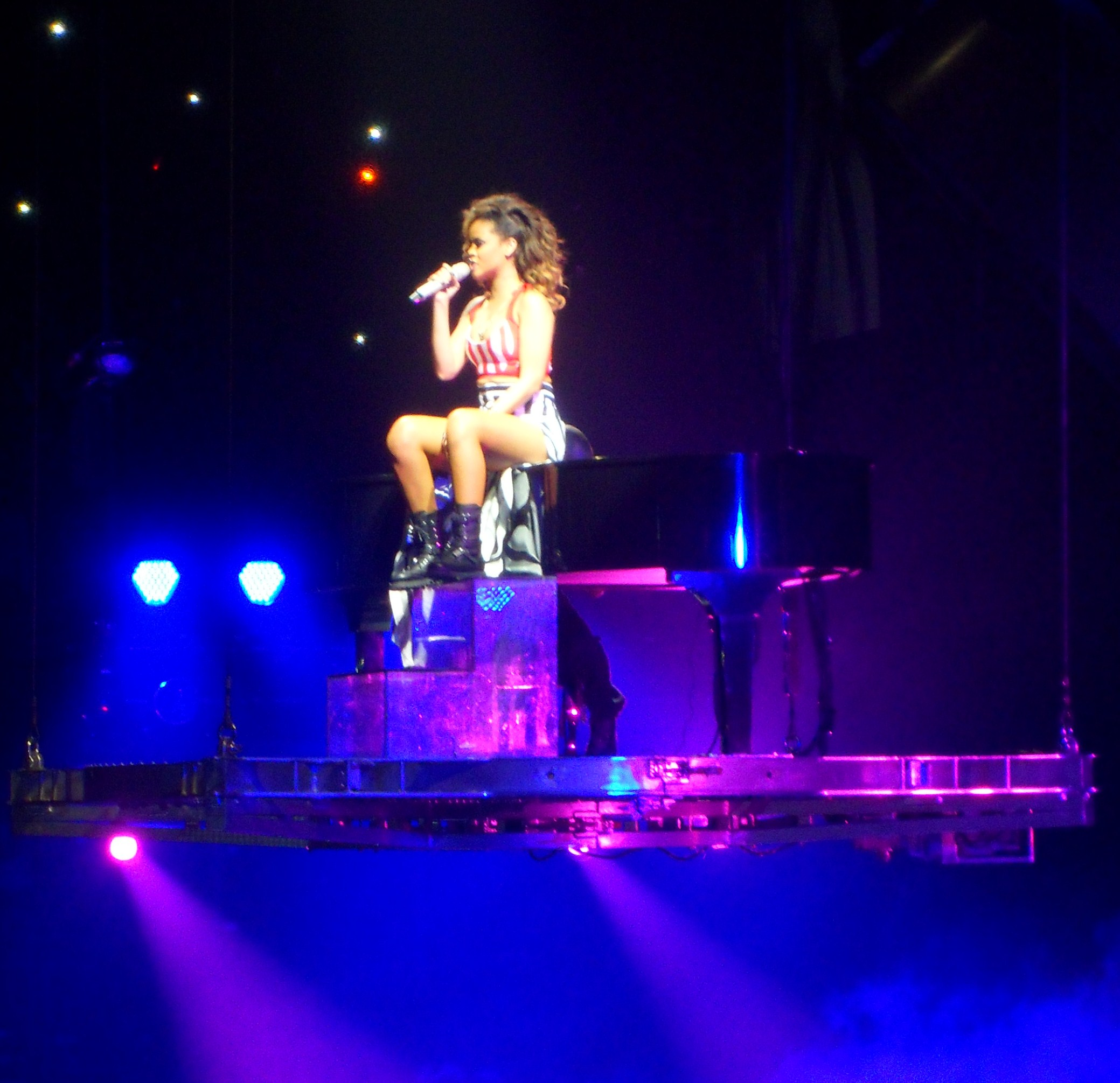 Rihanna performing Love the Way You Lie Pt. II in Birmingham at the LG Arena